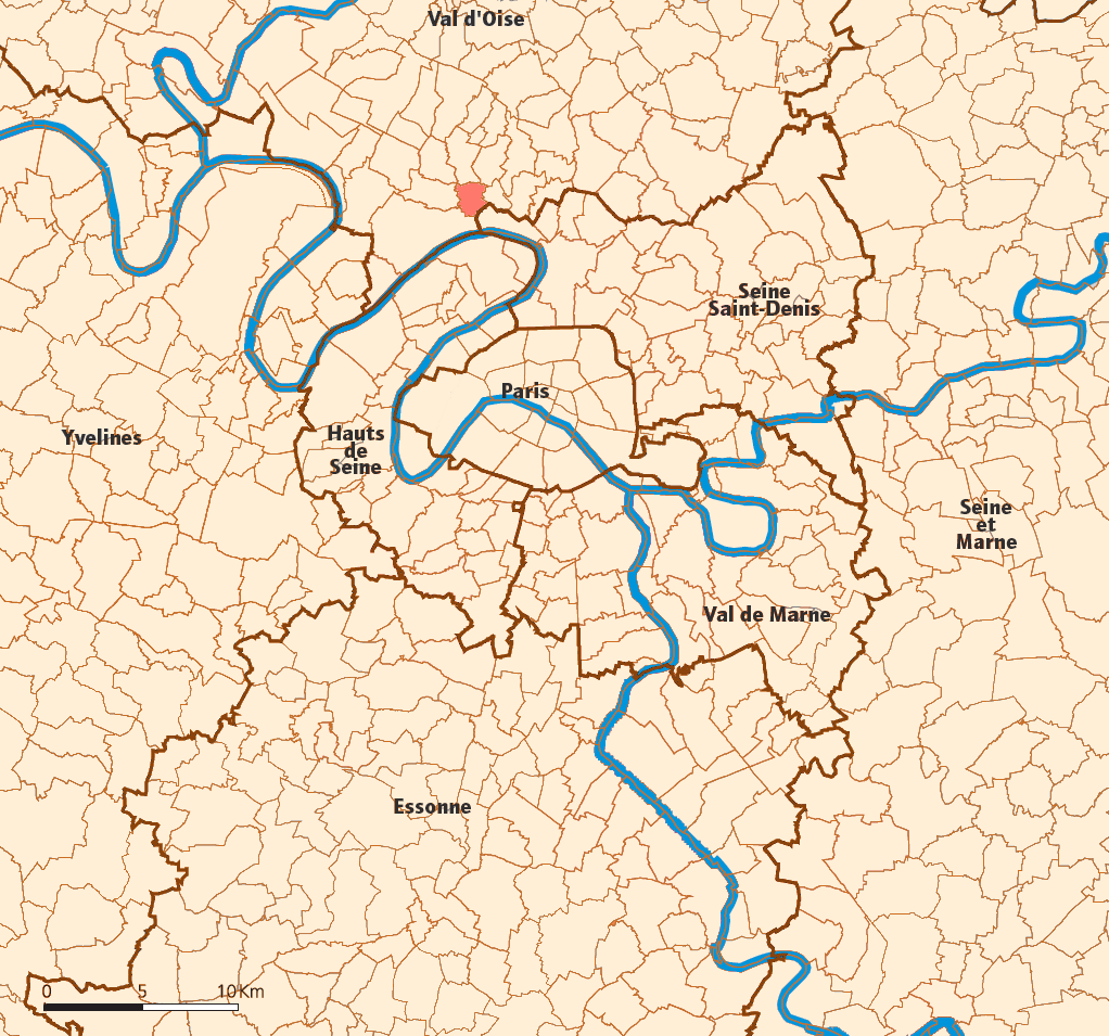 Created map myself.